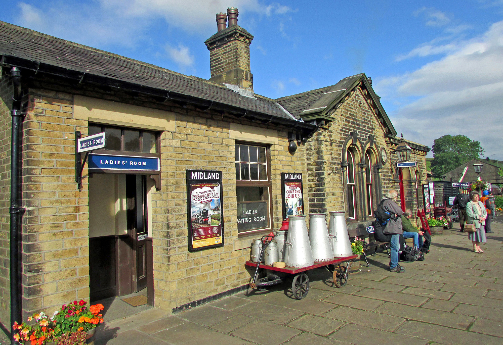 Oakworth railway station, Keighley & Worth Valley Railway, looking north in 2016